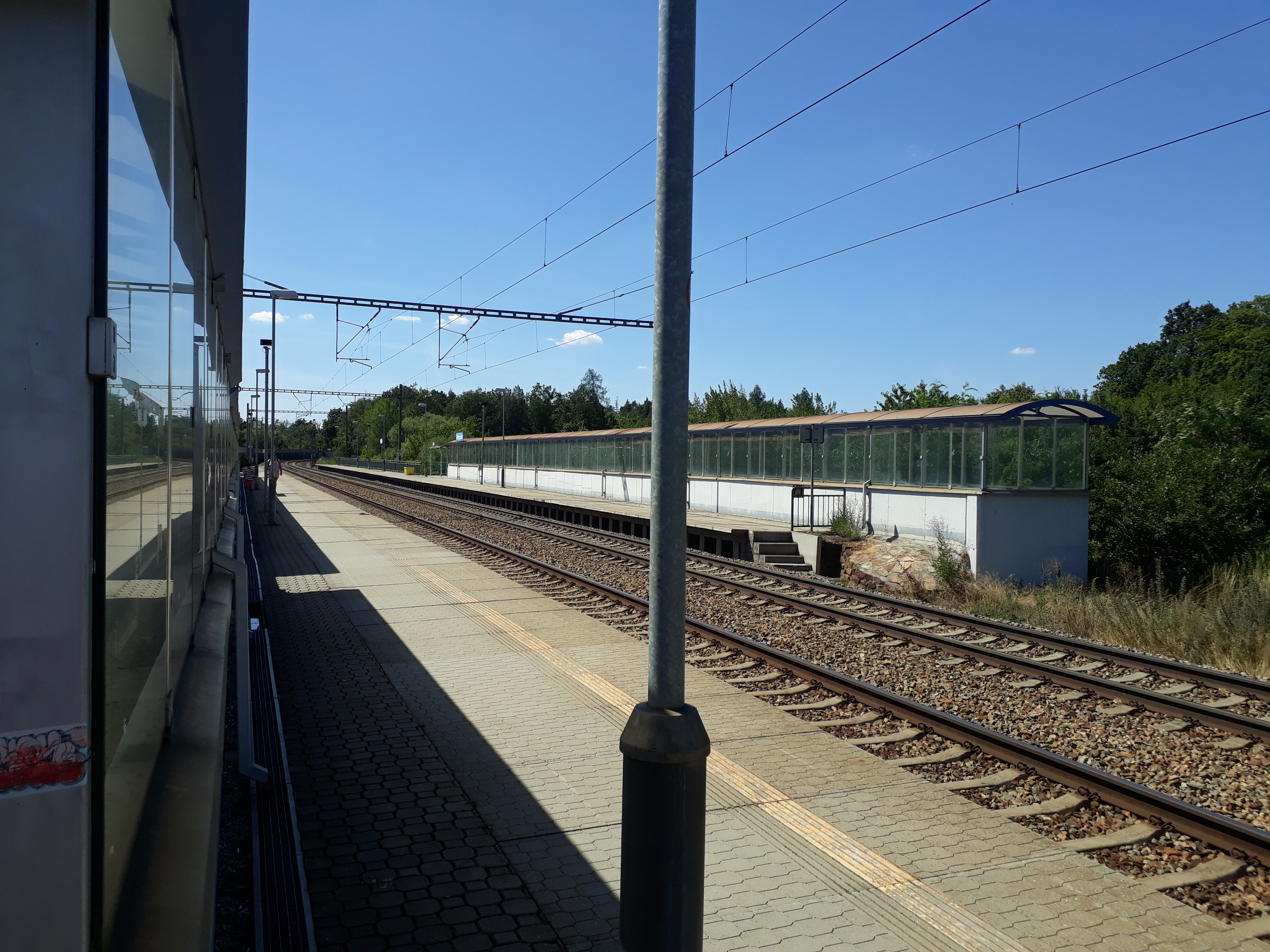 Railway stop Plešnice - plaforms